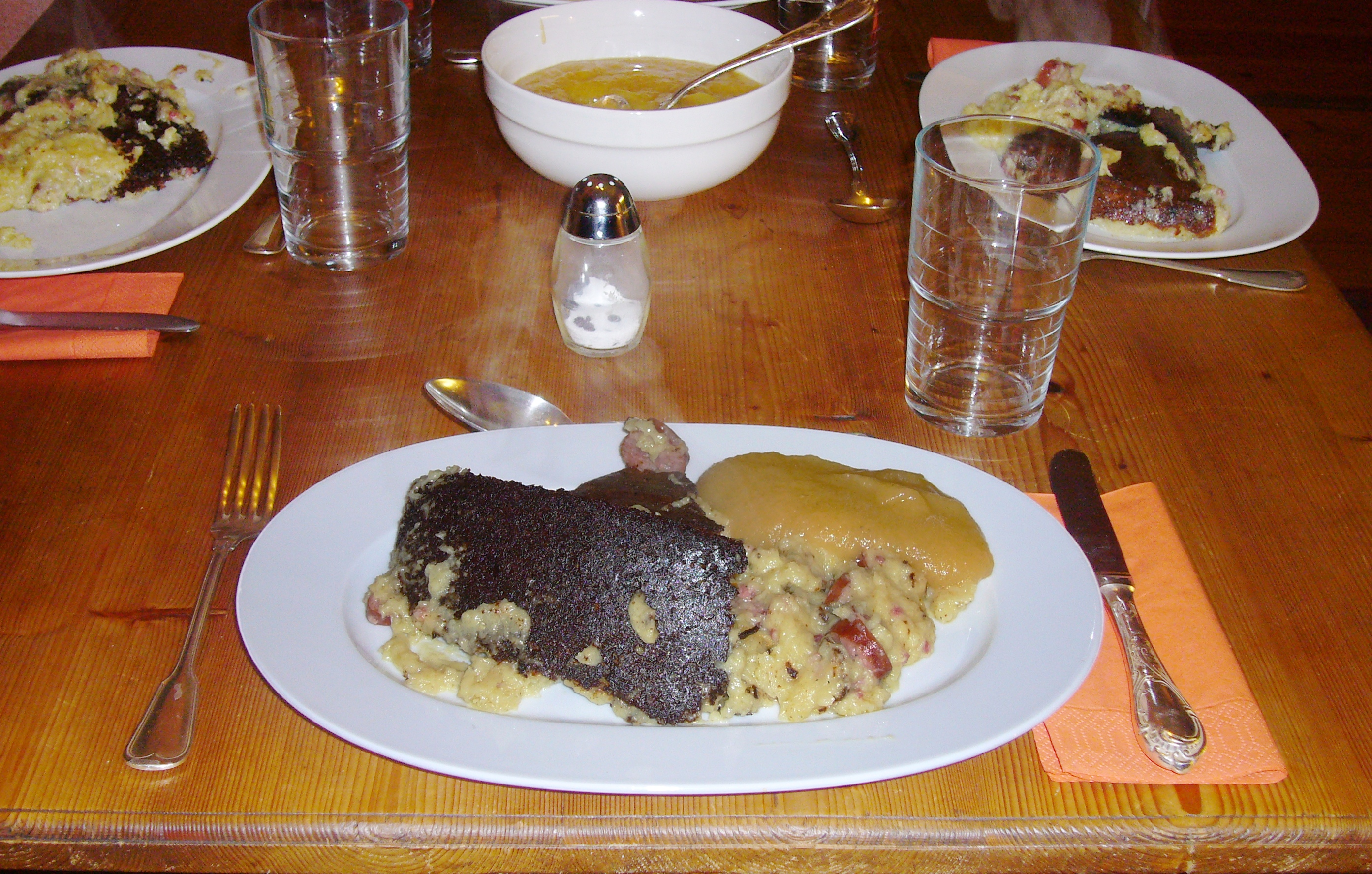 A dish of "Uhles" with apple puree